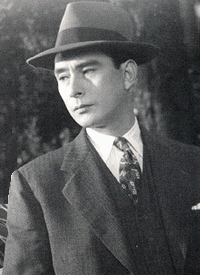 A studio still of the motion picture The Sound of the Mountain, featuring Ken Uehara (1909–91).